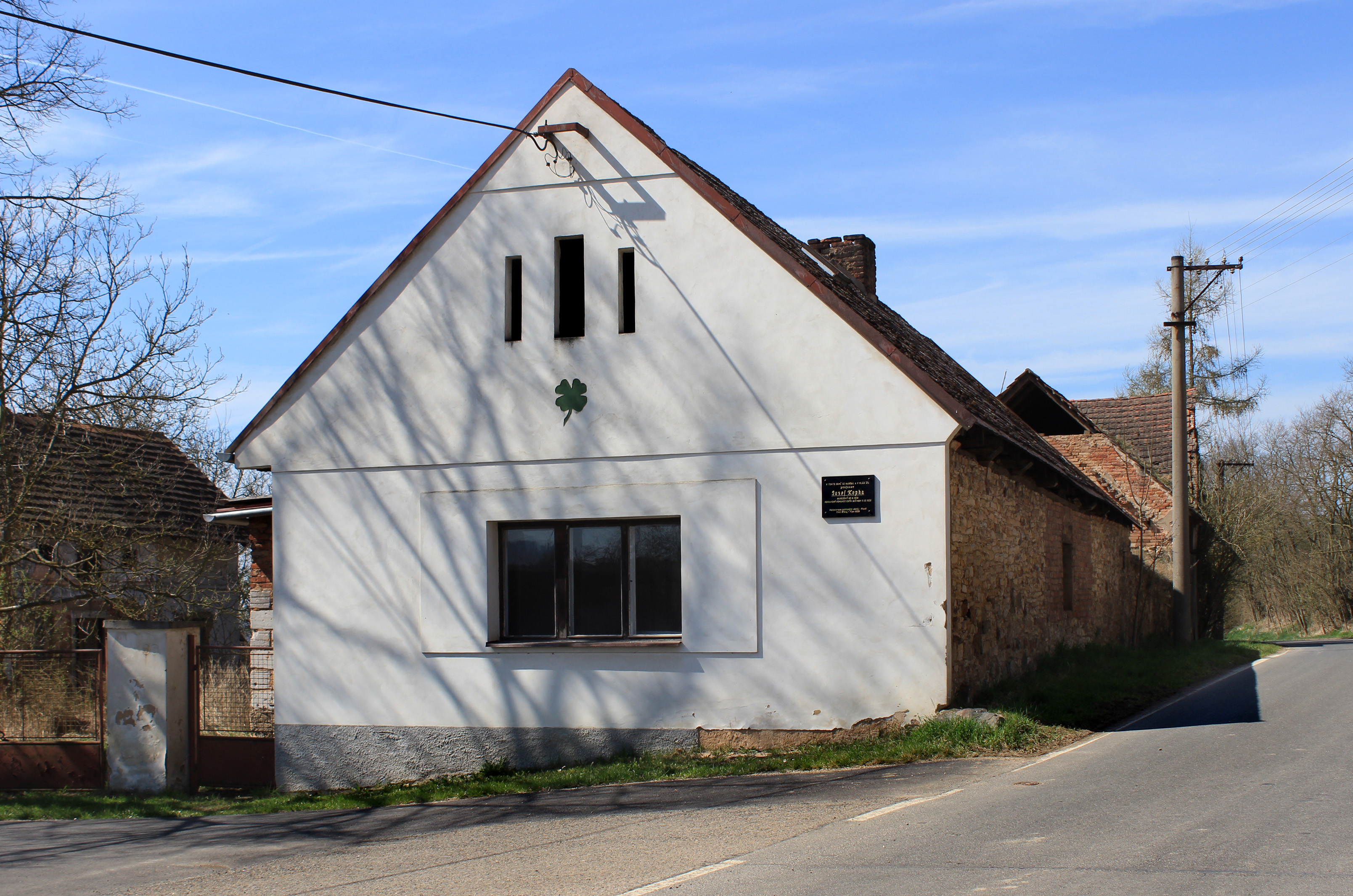 Birthplace of Josef Kepka in Vranovice, part of Břasy, Czech Republic.